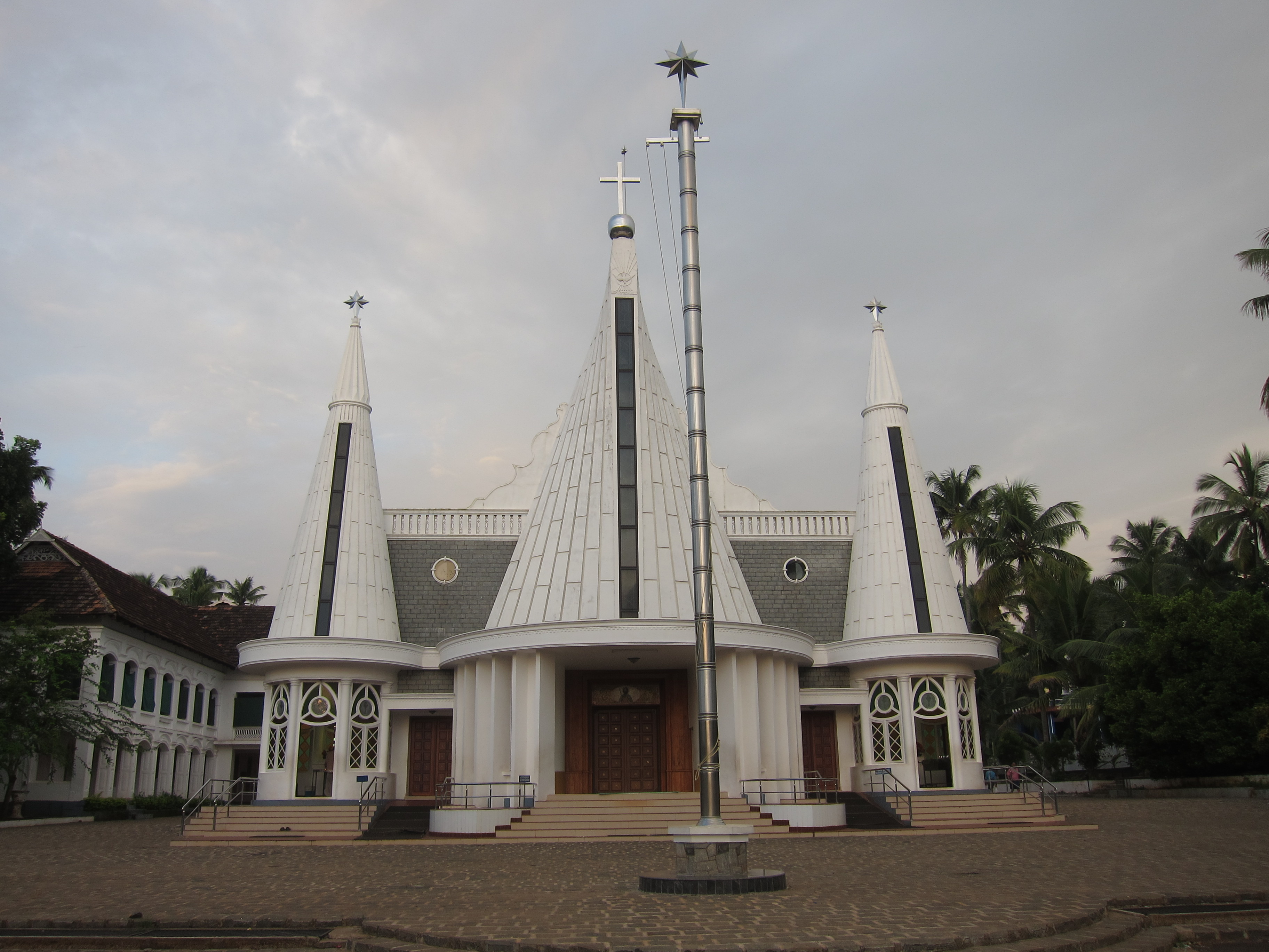 അമ്പഴക്കാട് ഫൊറോന പള്ളി സെന്റ് തോമസ് ഫൊറോന പള്ളി റോമൻ കാത്തലിക് സീറോ മലബാർ സഭയുടെ കീഴിൽ ഇരിങ്ങാലക്കുട രൂപത, തൃശ്ശൂർ ജില്ല Ambazhakkad Forane Church St. Thomas Forane Church Irinjalakuda Diocese, Thrissur District